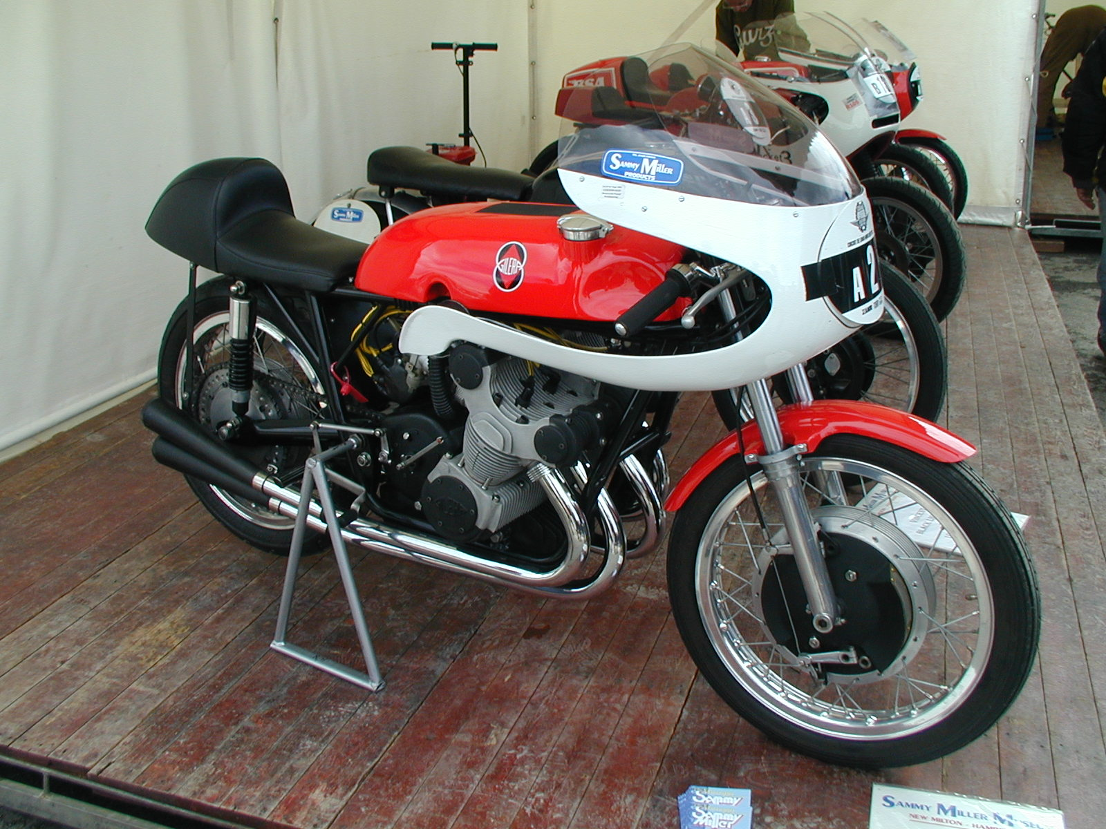 Racing 4 cylinder DOHC Gilera in the 50s